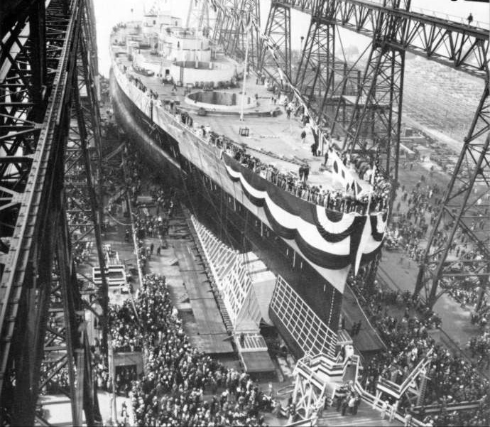 The beginning of the launching ceremony for the first battleship built in the U.S. in almost twenty years, crowds gather around the Washington (BB-56) at the Philadelphia Naval Ship Yard on 1 June 1940. She is the 1st battleship built and launched by the USN since West Virginia (BB-48) in November 1921.